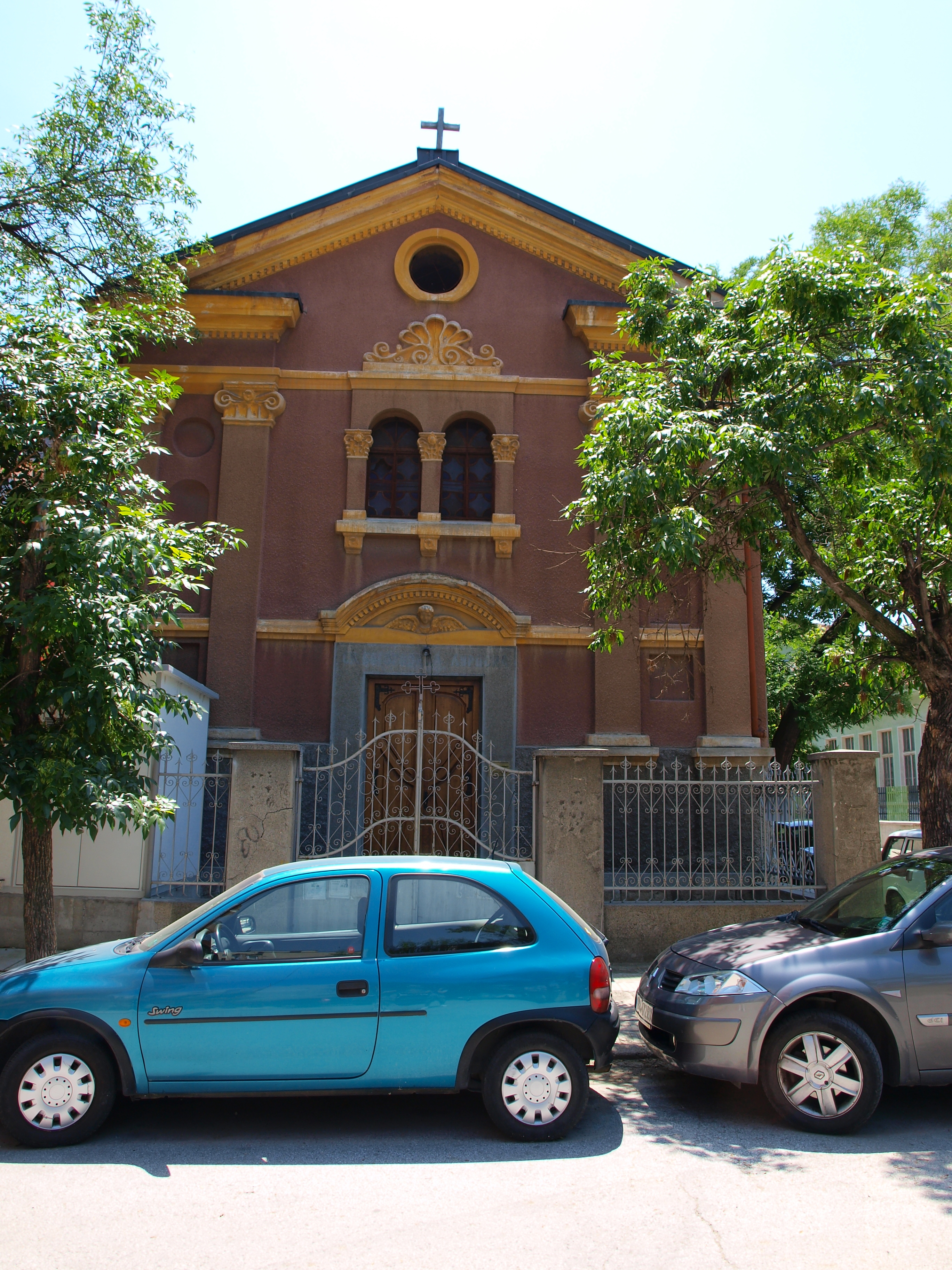 A Catholic church in Kichuk Parizh (Little Paris), a neighbourhood of Plovdiv, Bulgaria